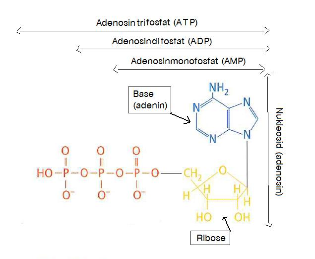 Simplified structural formula of an ATP molecule explaining its components